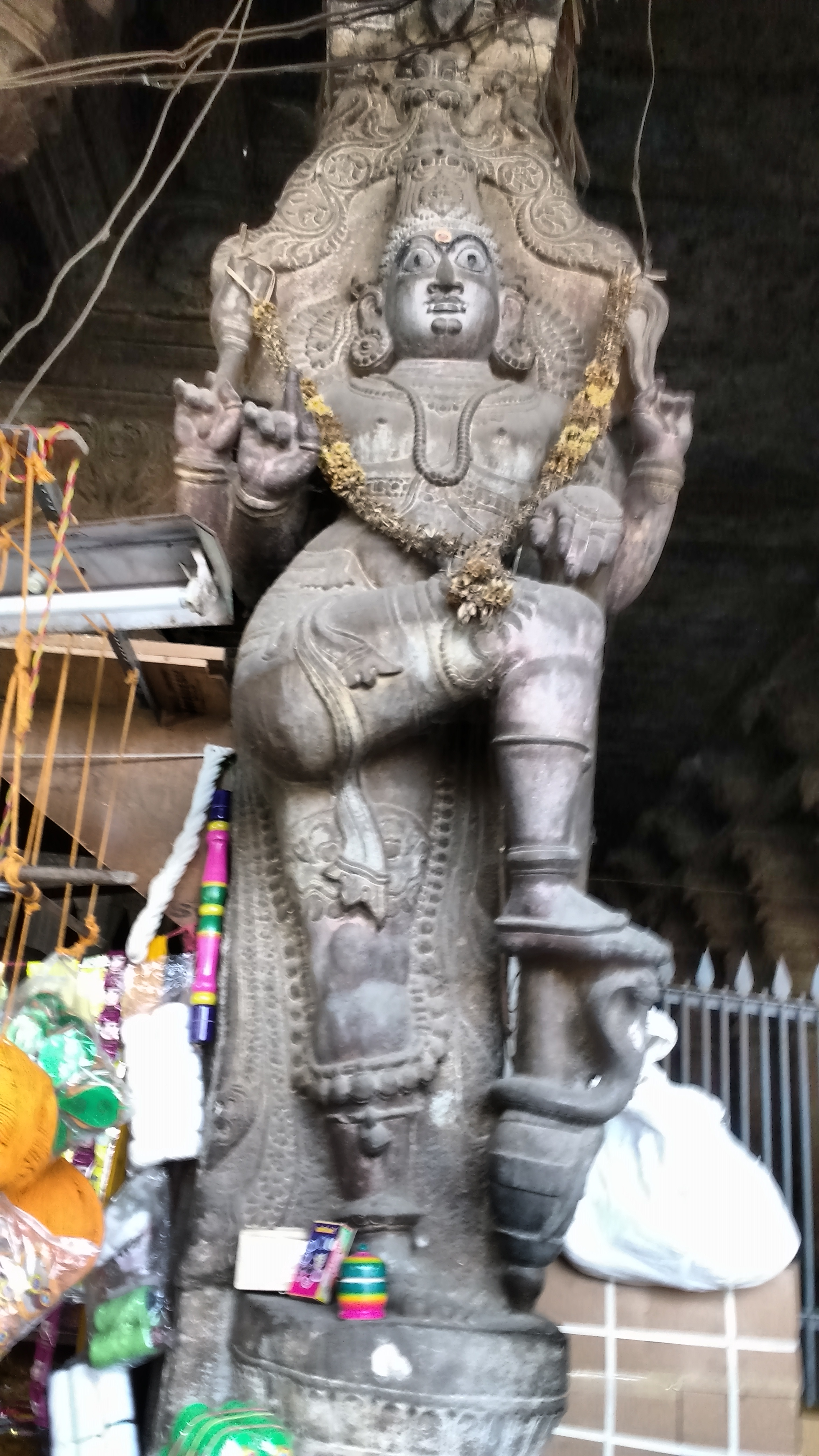 Hindu Deity